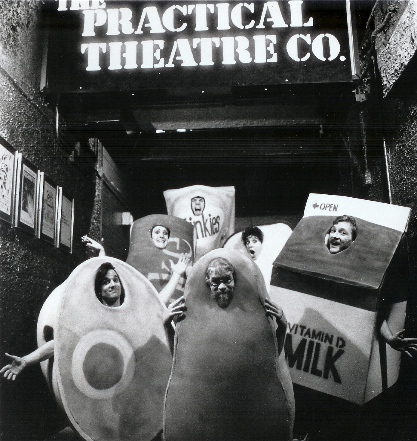 "Babalooney" cast photo: Paul Barrosse, Lynn Baber, Rod McLachlan, Rush Pearson, Jane Muller and Jamie Baron (1983)